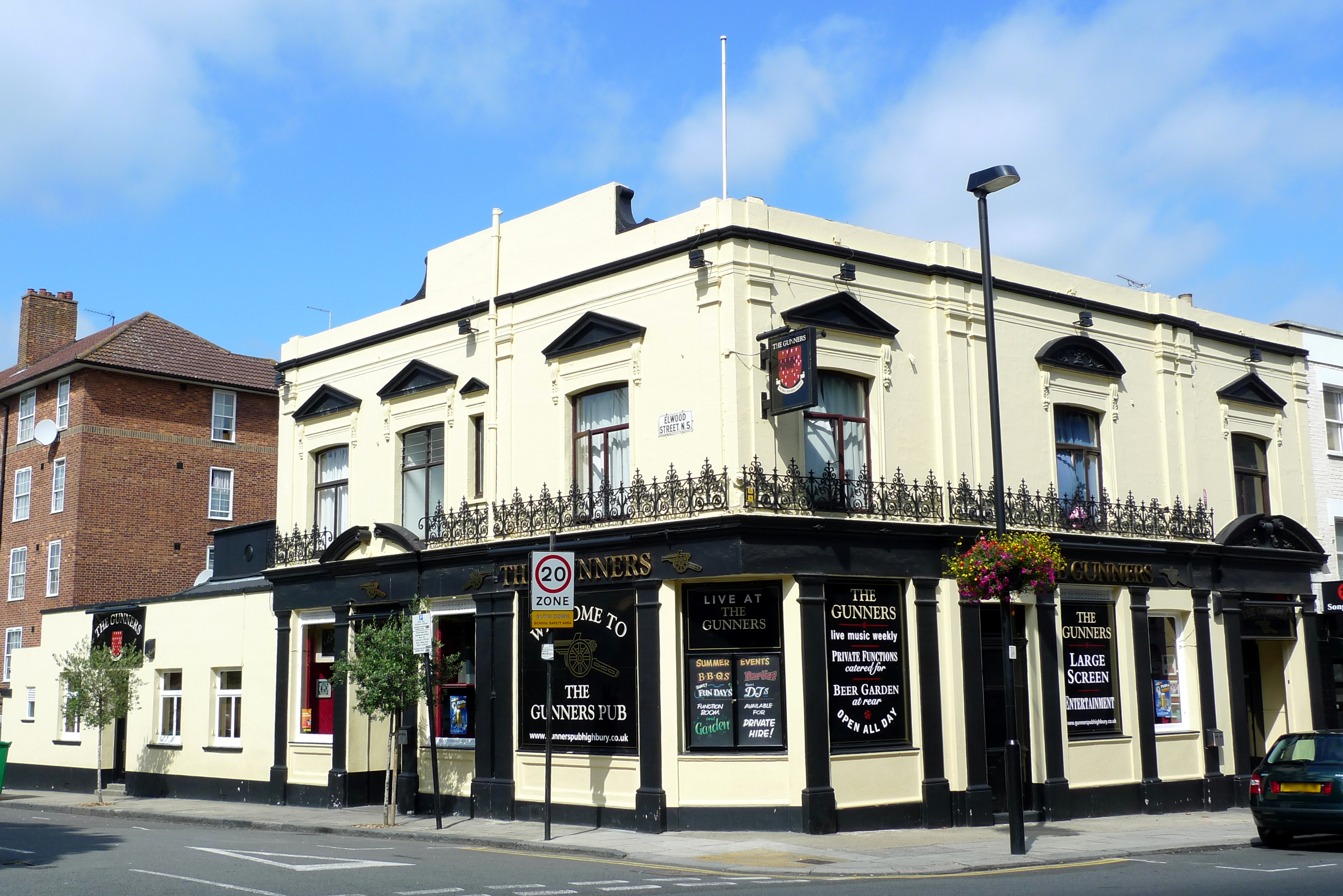 Clearly an Arsenal supporters' pub, not too far from the ground. (Photo of it prior to repainting.) Address: 204 Blackstock Road. Former Name(s): The Globe Tavern. Owner: Pubmaster; Watney Combe Reid (former). Links: London Pubology